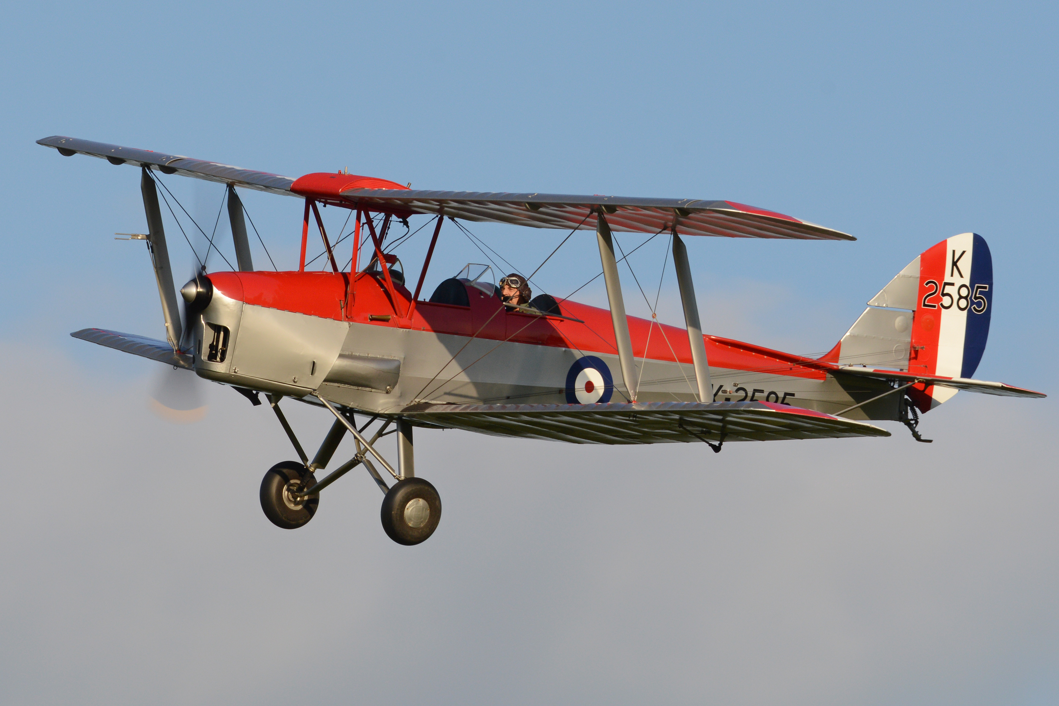 c/n 85087. Built 1944. In false CFS markings as K2585, her actual British military identity is T6818. She is owned and operated by the Shuttleworth Collection and is seen displaying at the Shuttleworth Collection Evening Airshow, Old Warden, Bedfordshire, UK. 17th June 2017.